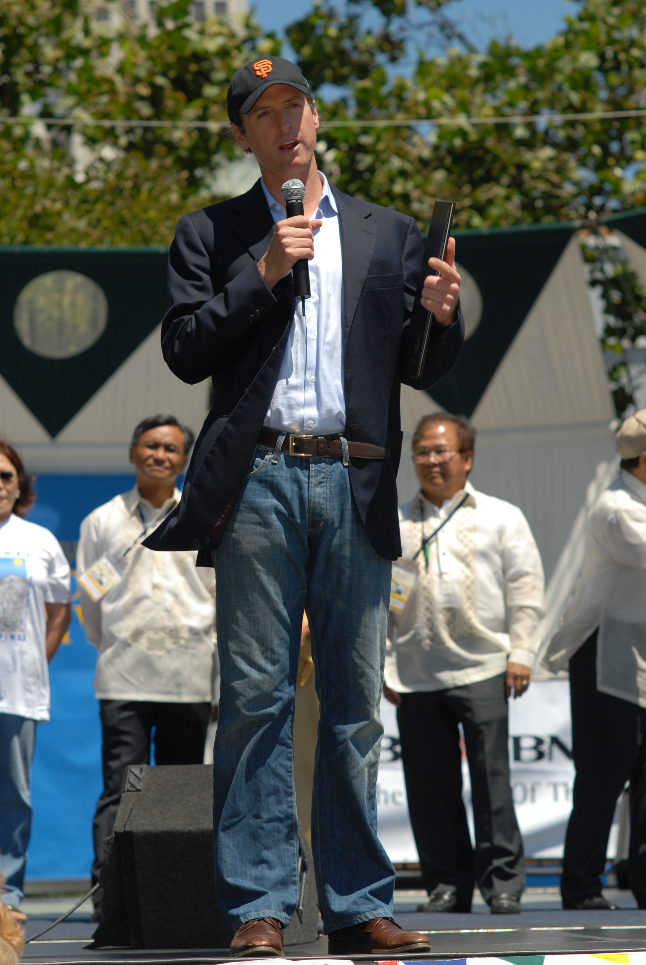 The San Francisco Mayor Gavin Newsom announces August 11-12 as San Francisco's Annual Pistahan Days.